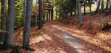 Image taken from - product of the National Park Service and consequently in the public domain in the United States